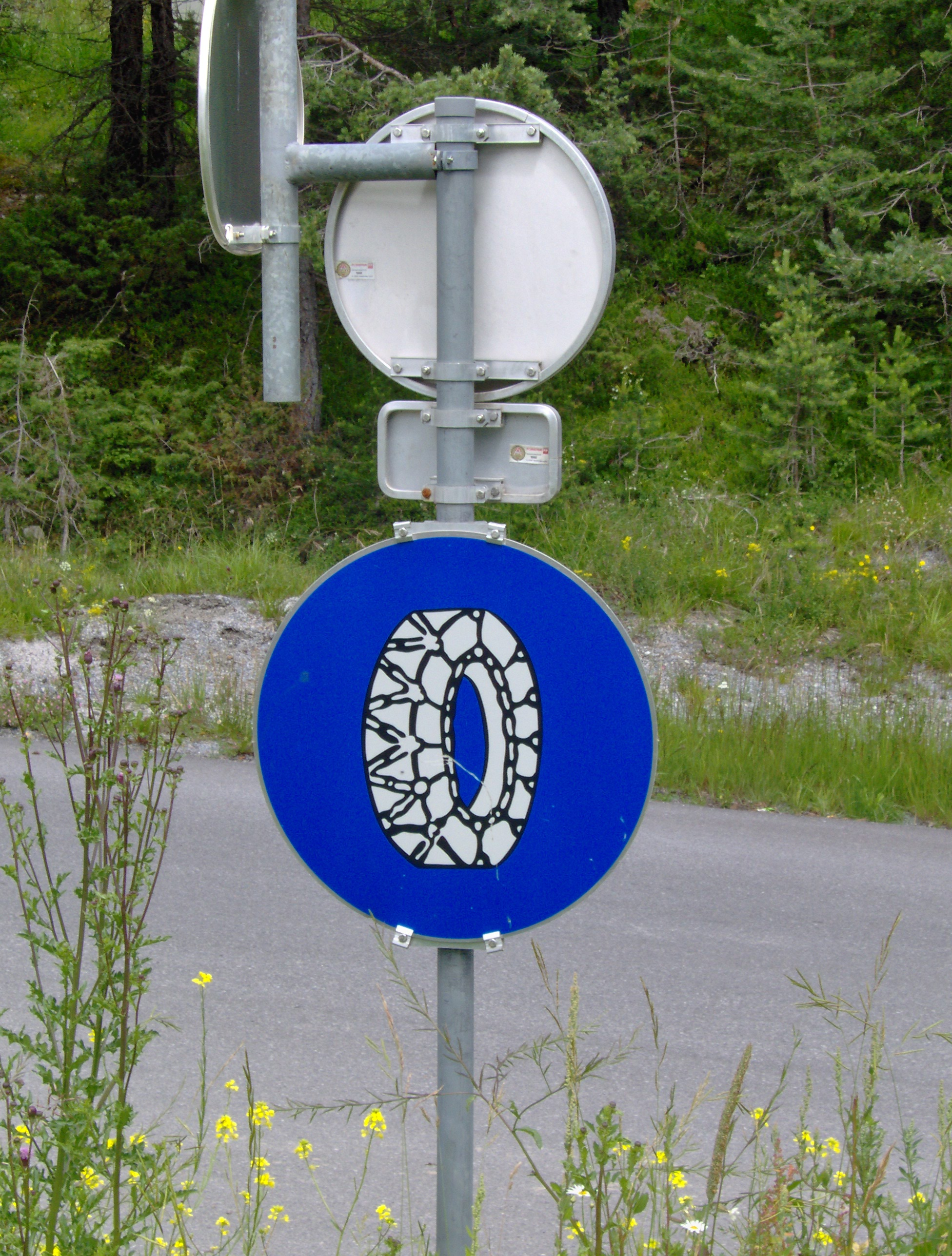 Road sign for obligation to use snow chains, Hoch-Imst, Imst, Tyrol, Austria.